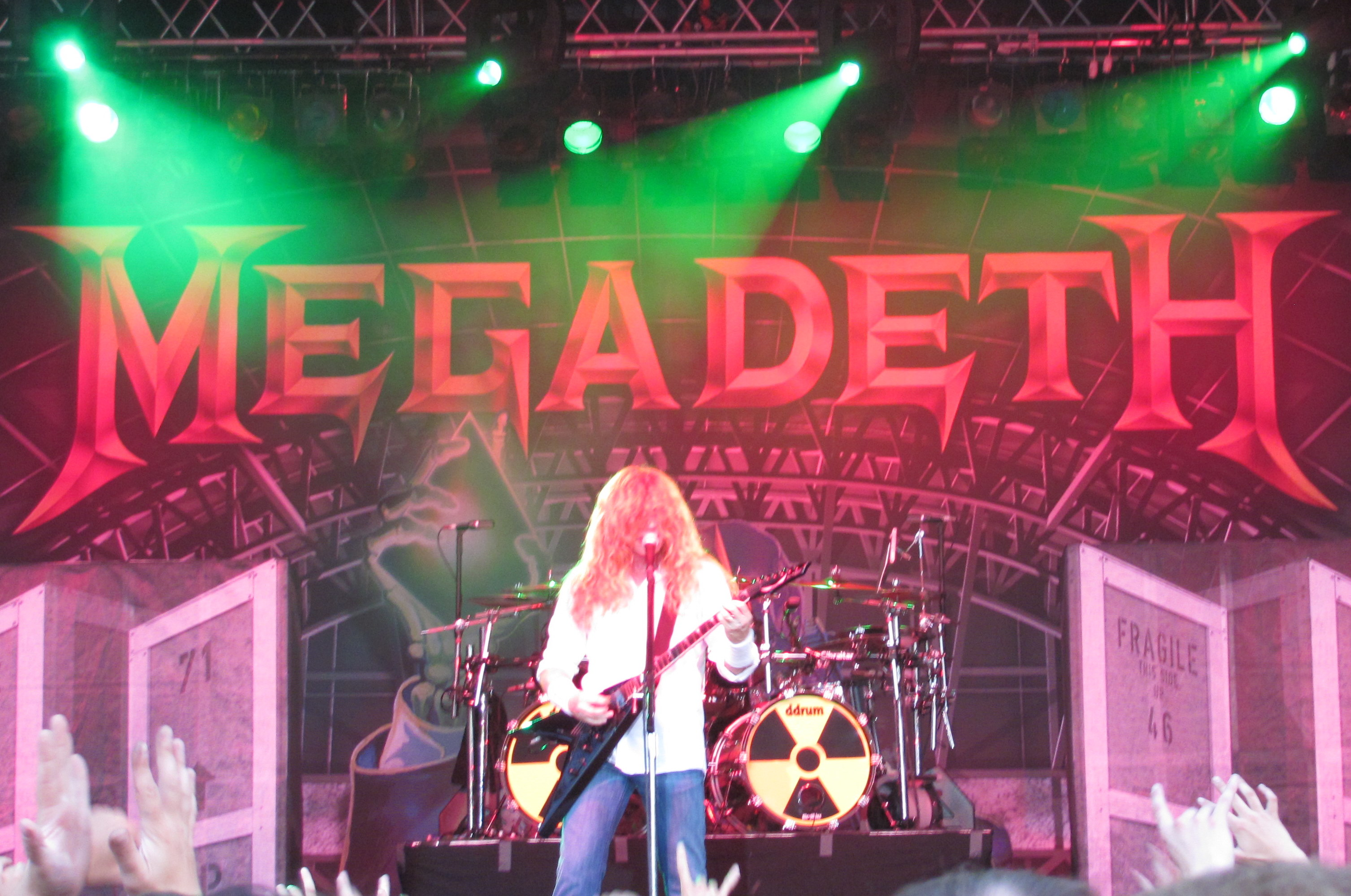 Mustaine in Haapsalu Castle